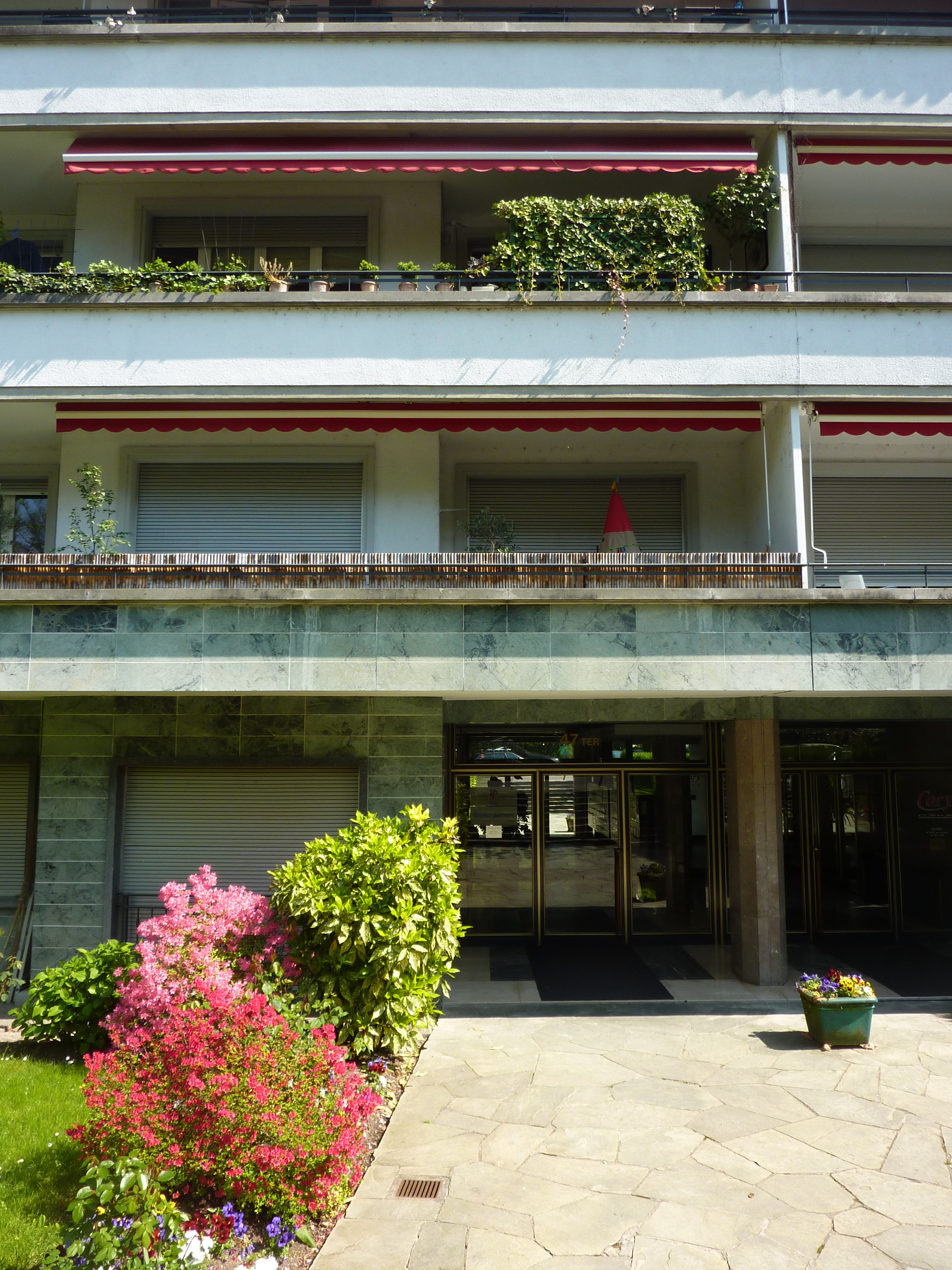 Consulate of Egypt in Geneva, Switzerland